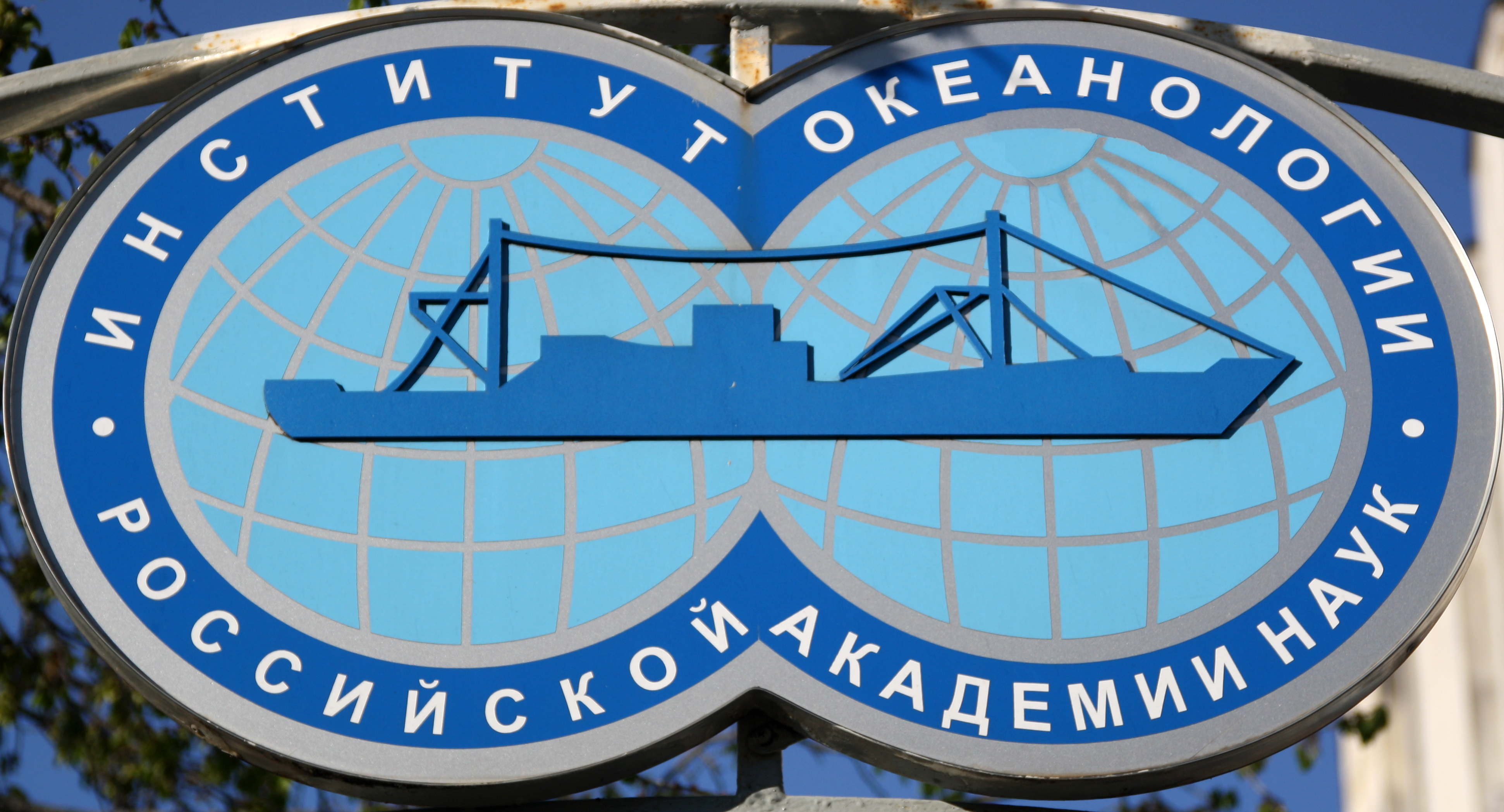 фото логотипа ИОРАН